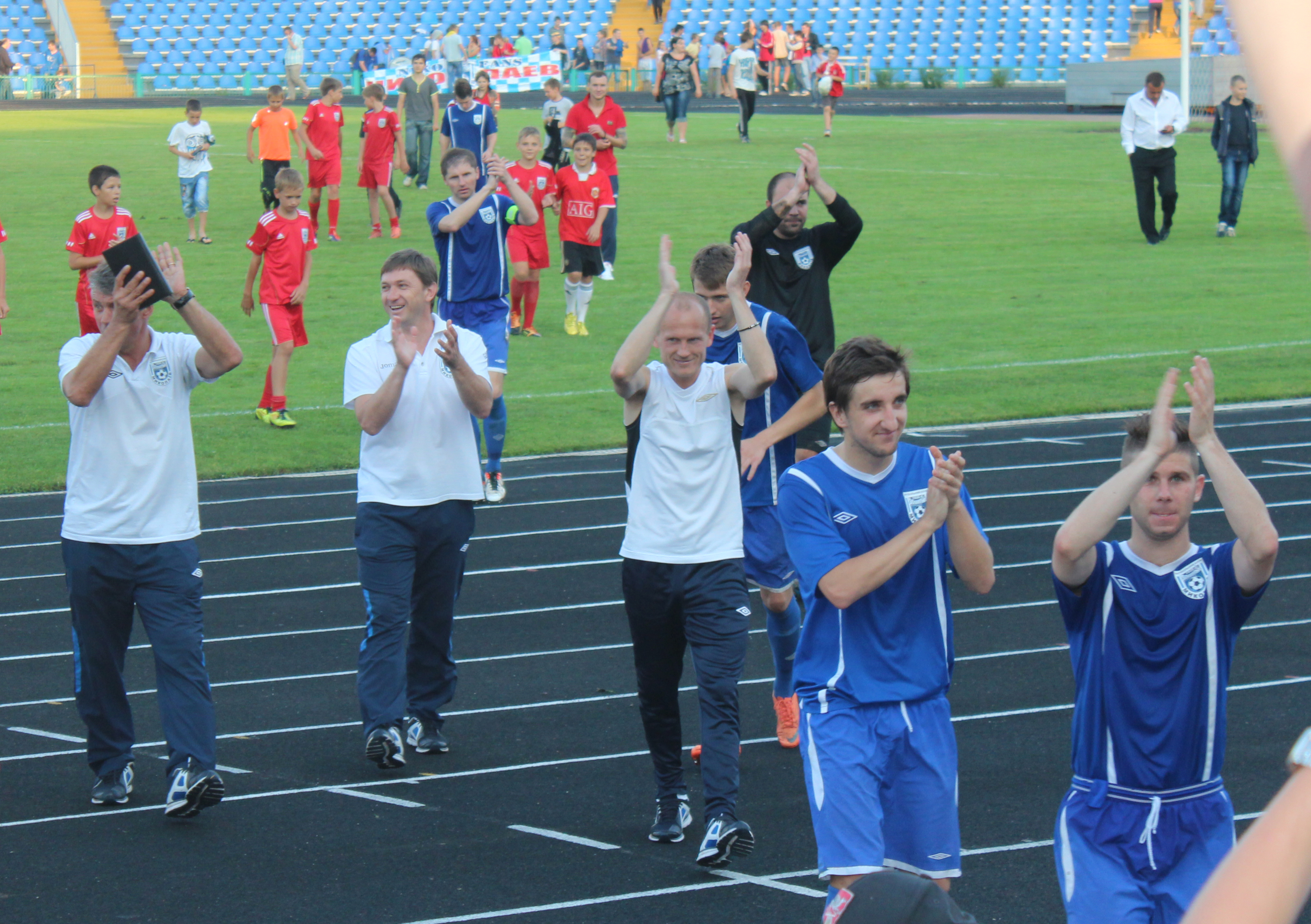 MFC Mykolaiv in 2013